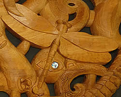 A New Zealand giant dragonfly (Uropetala sp.) carved into the pare or lintel of a traditional Māori building.